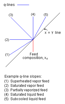 I drew this diagram of q-line slopes for use with McCabe-Thiele using Microsoft's Paint program. I am User:mbeychok and the date is November 20, 2006. This image has also been uploaded into the English Wikipedia.